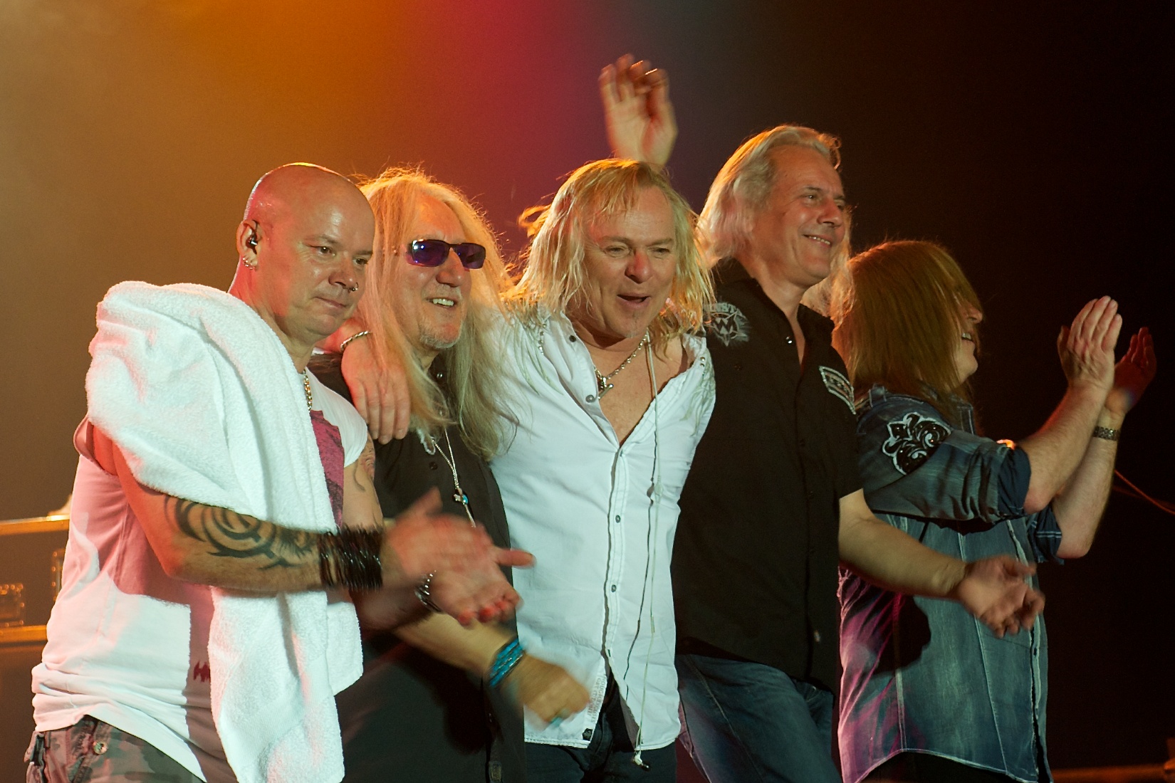 Picture of Uriah Heep (2011)